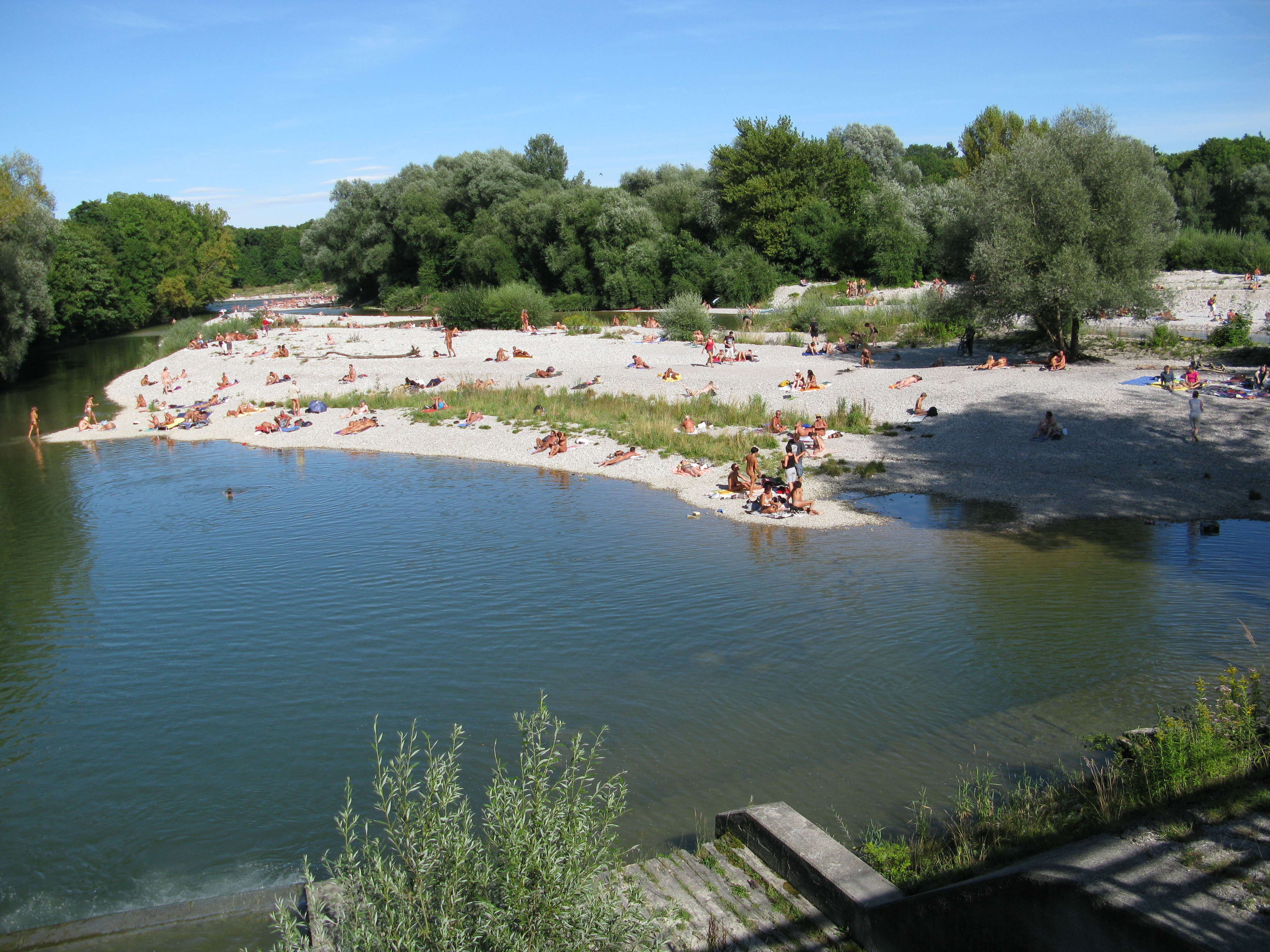 The Flaucher (river: Isar) in Munich.